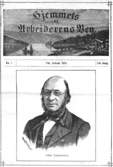 Frontpage of newspaper from 1890 featuring Johan Augustinussen